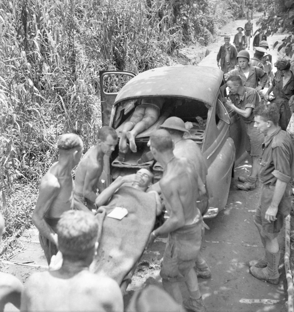 1942-12-16. PAPUA. GONA. WOUNDED AUSTRALIANS, PROBABLY FROM THE 55/53RD BATTALION, BEING PLACED IN A SEDAN CAR WHICH WAS CONVERTED INTO AN AMBULANCE. THIS CAR WAS CAPTURED BY THE JAPANESE AT SINGAPORE AND RECAPTURED BY AUSTRALIANS AT GONA. (NEGATIVE BY G. SILK).